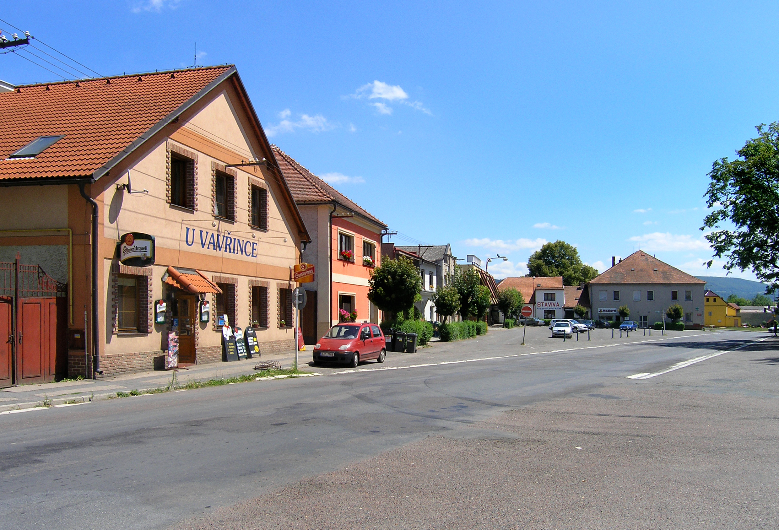 Chitussi square in Ronov nad Doubravou, Czech Republic